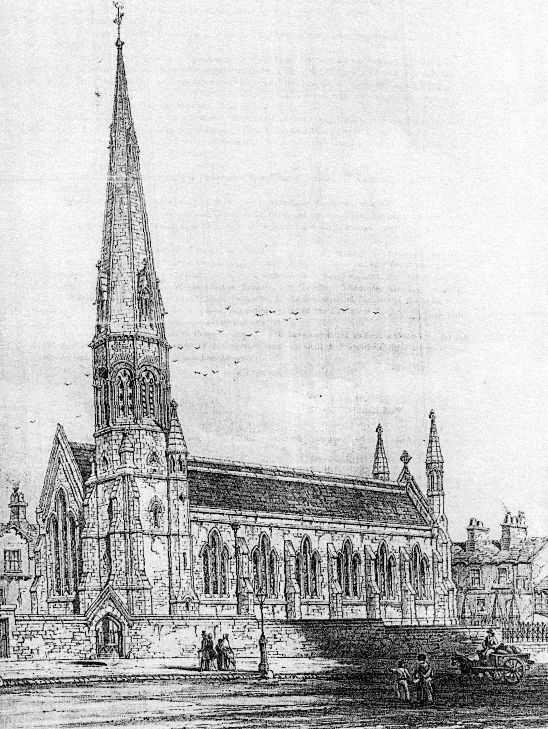 Architect's drawing of St Thomas' parish church, Lancaster, showing a proposal for a southwest tower and spire. Instead a west tower of different design was built.